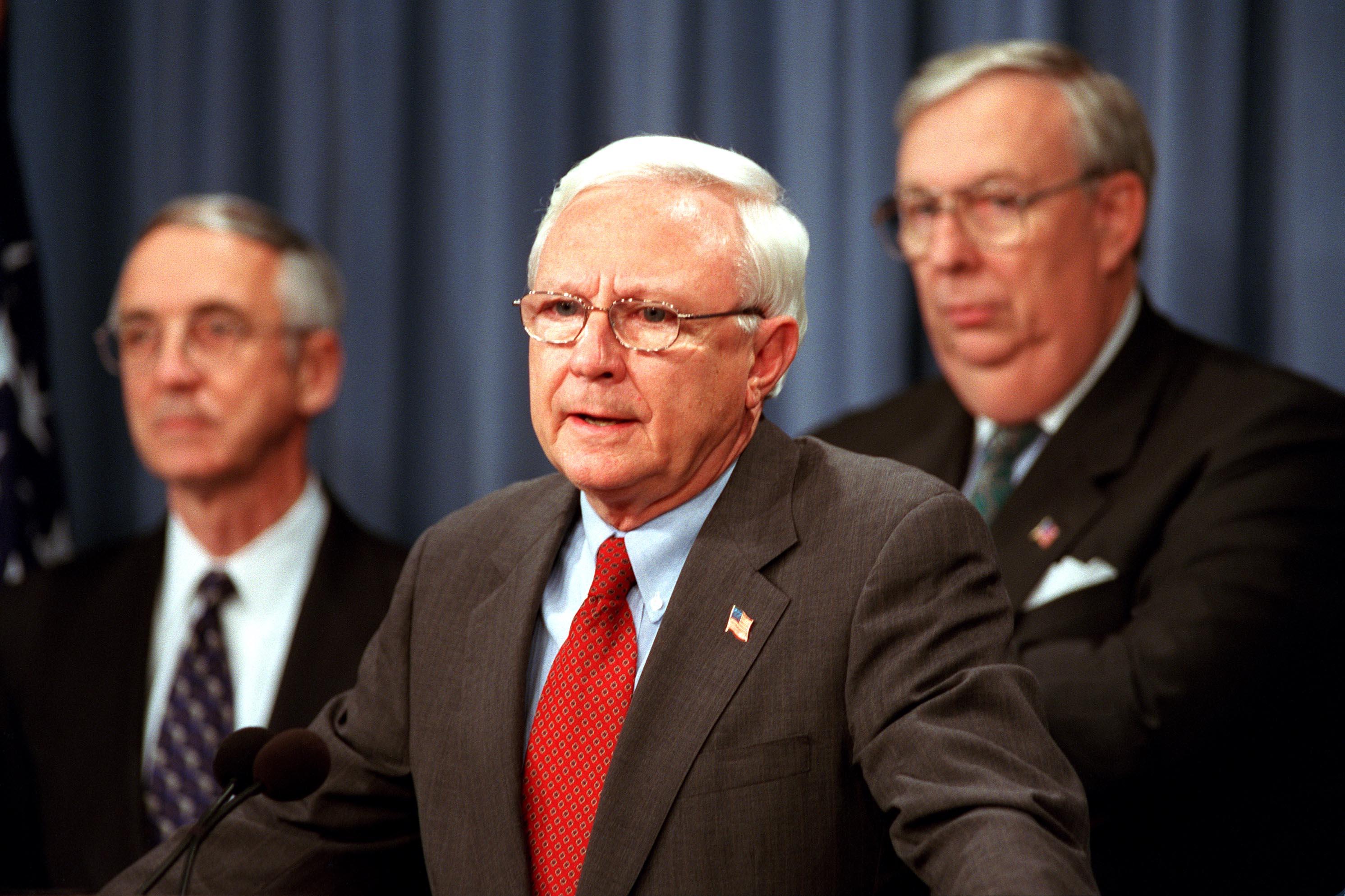 Under Secretary of Defense for Acquisition, Technology and Logistics Edward C. "Pete" Aldridge Jr. announces the decision to proceed with the Joint Strike Fighter program, at the Pentagon on Oct. 26, 2001, moving the program to the System Development and Demonstration phase. The Joint Strike Fighter is a multi-service, multi-nation, family of warplanes which will be produced in three versions to fit the requirements of the U.S. Air Force, Navy, and Marine Corps as well as the British Royal Air Force and Navy. The program is the largest acquisition program in the history of the Department of Defense. Secretary of the Navy Gordon England (left) and Secretary of the Air Force James Roche joined Aldridge for the announcement.